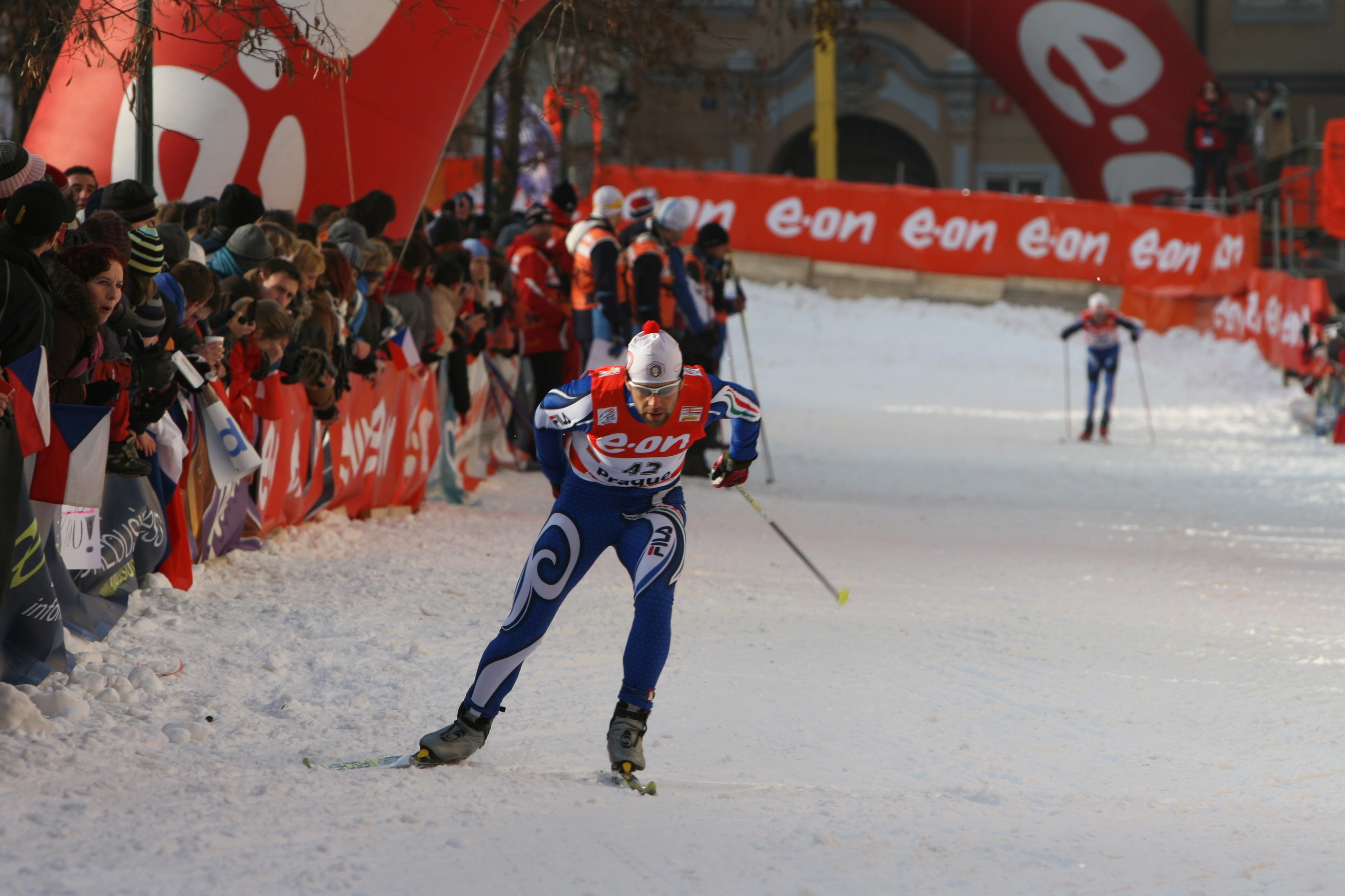 Freddy Schwienbacher in the qualification of Tour de Ski in Prague